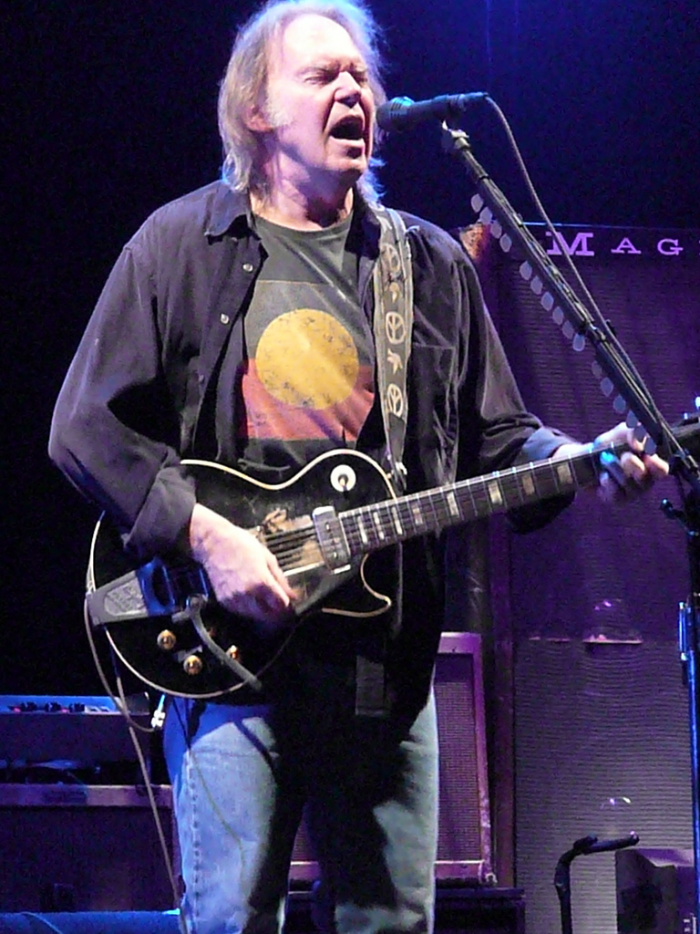 Neil Young at the Trent FM Arena in Nottingham.